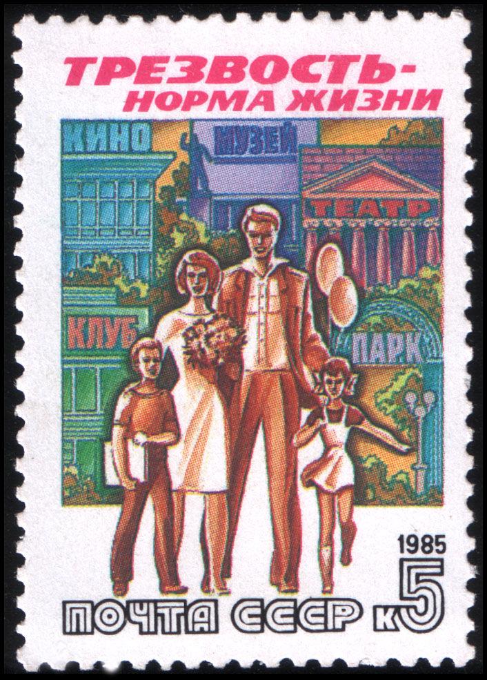 USSR stamp, Sobriety - standard of a life, 1985, 5 kop.